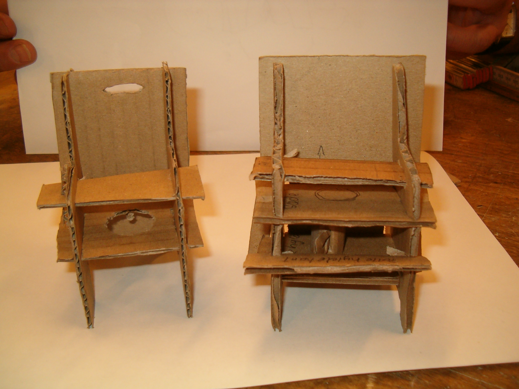 Mockup